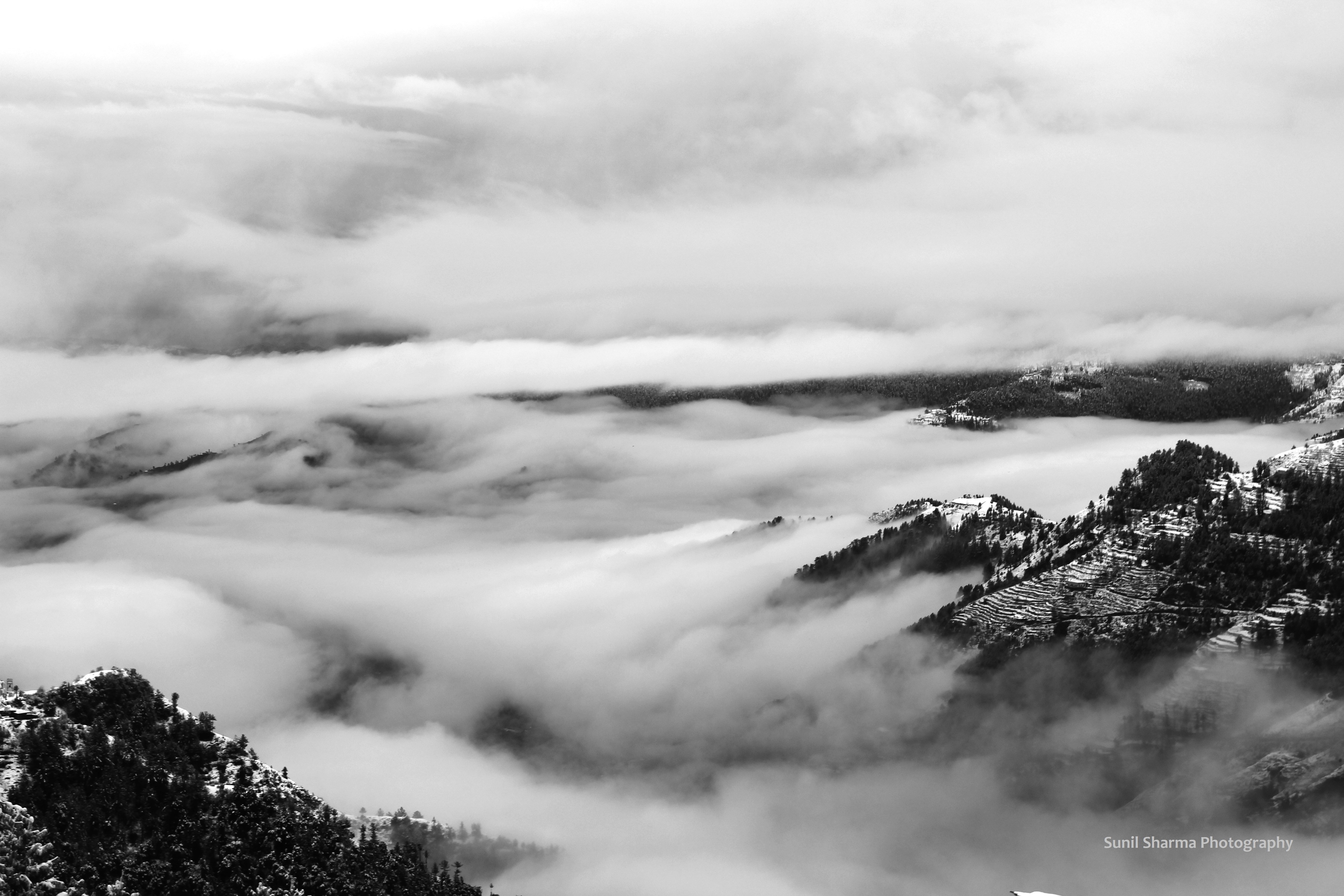 Rahighat Theog Landscape in winter